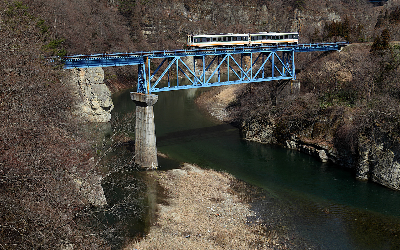 Auzu Railway Type AT-650 + AT-600 DMU and Ōkawa Bridge No.5